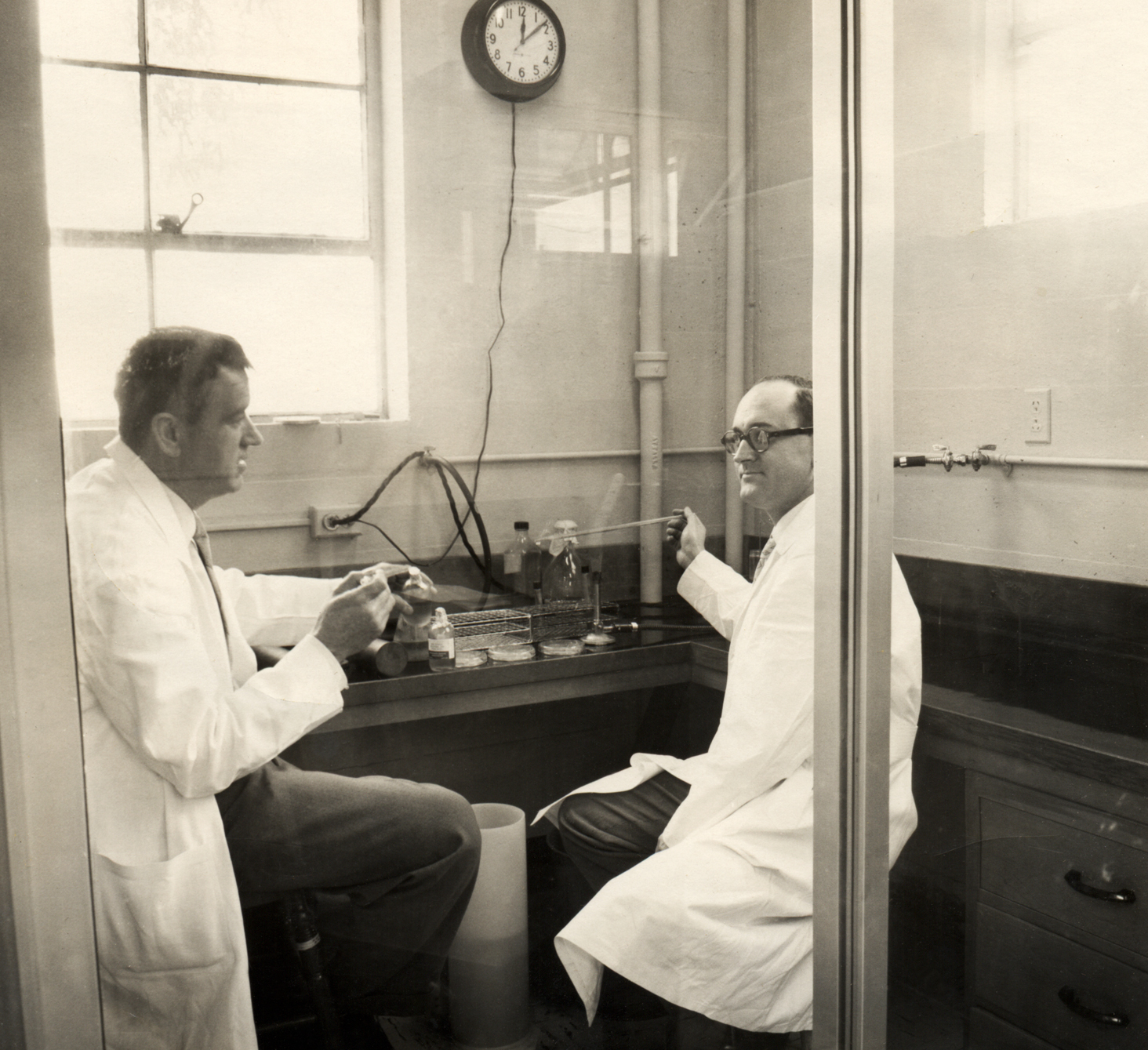 Thygeson and Robert Barishak, Proctor labs, 1958